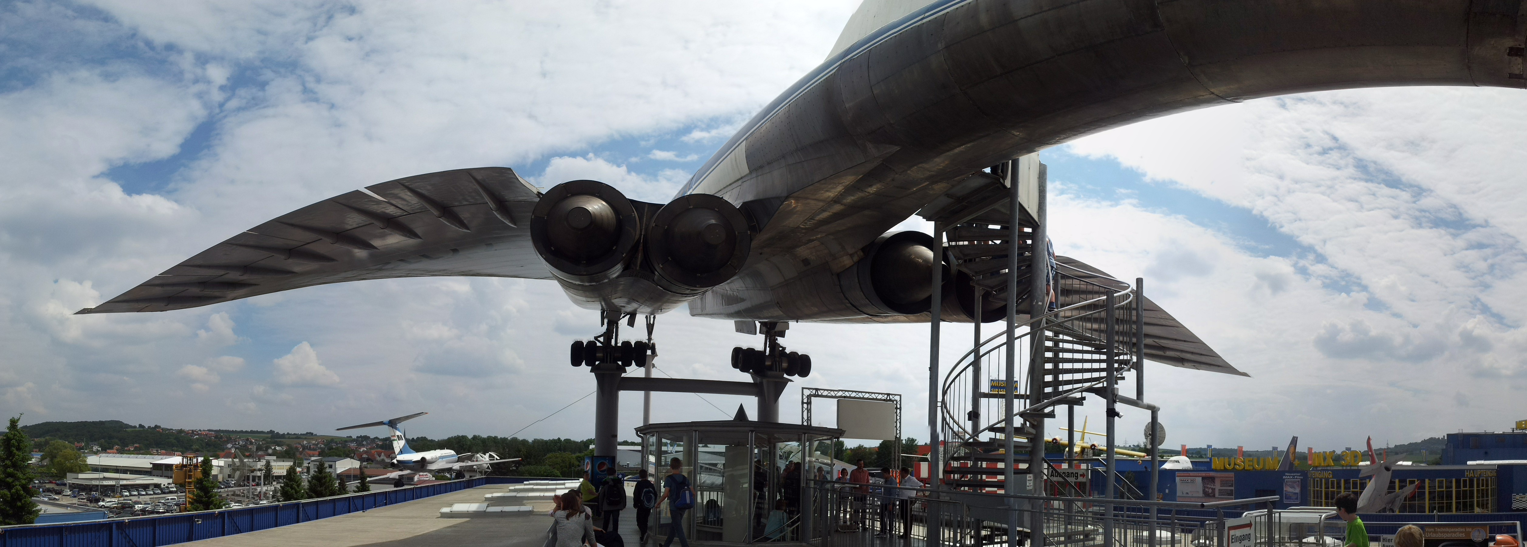 Tupolev Tu-144 - rear of the plane wide view